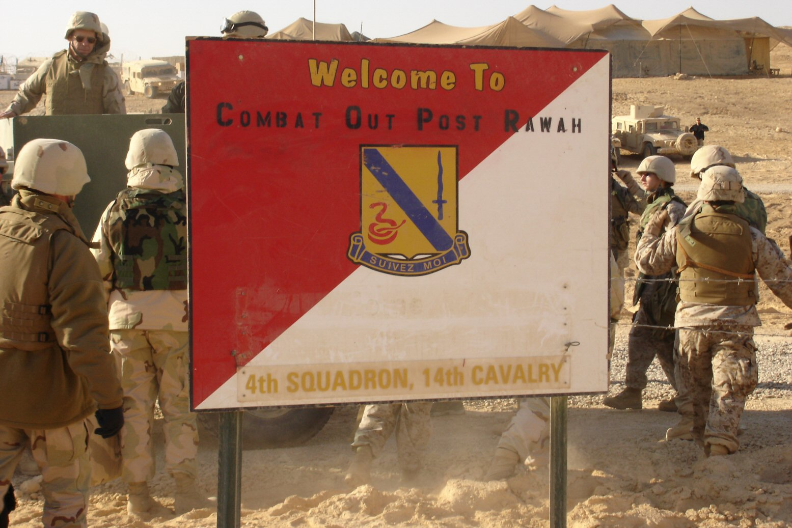 welcome sign at COP rawah